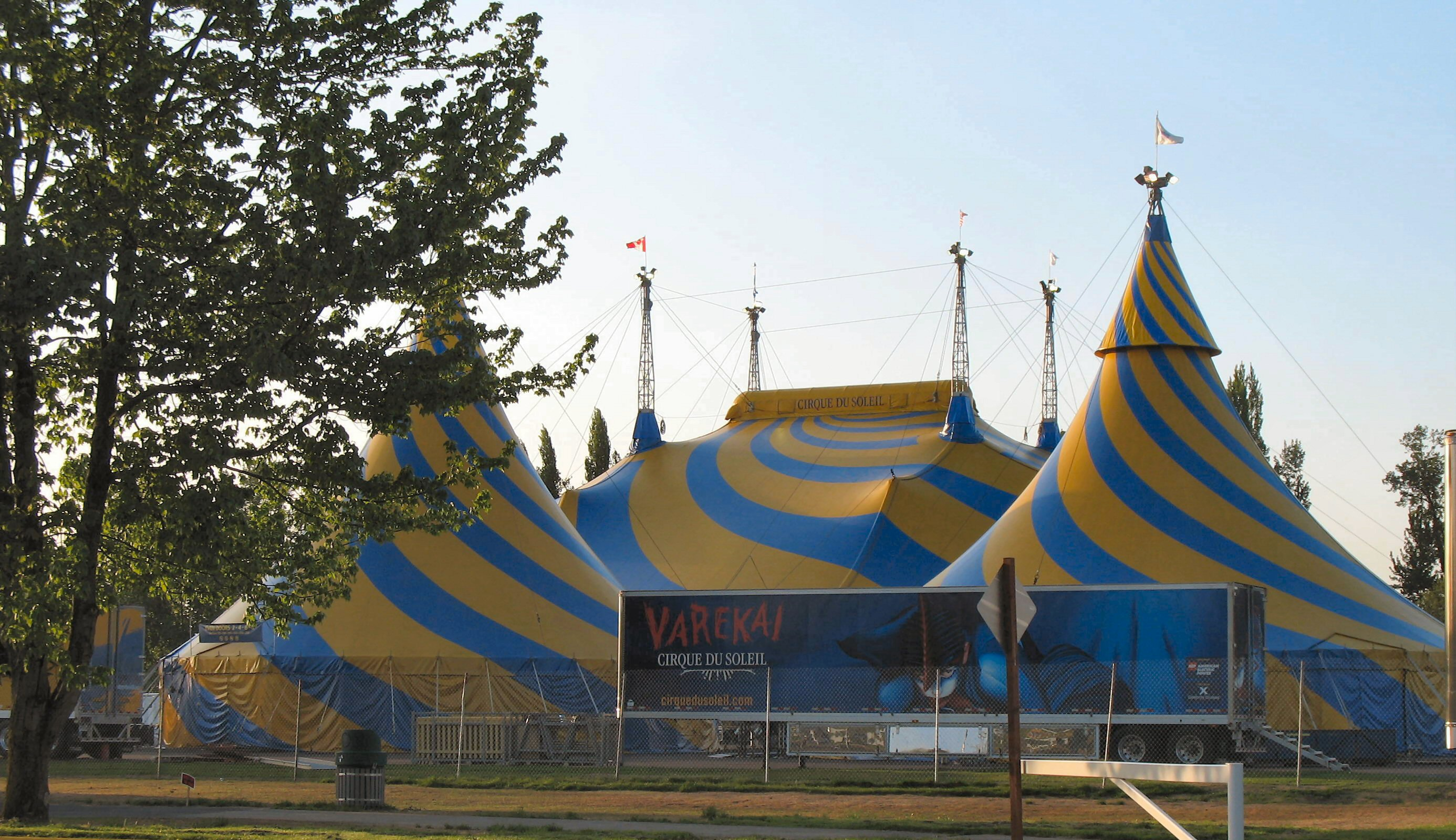 Cirque is here getting ready to start 5/4/06!